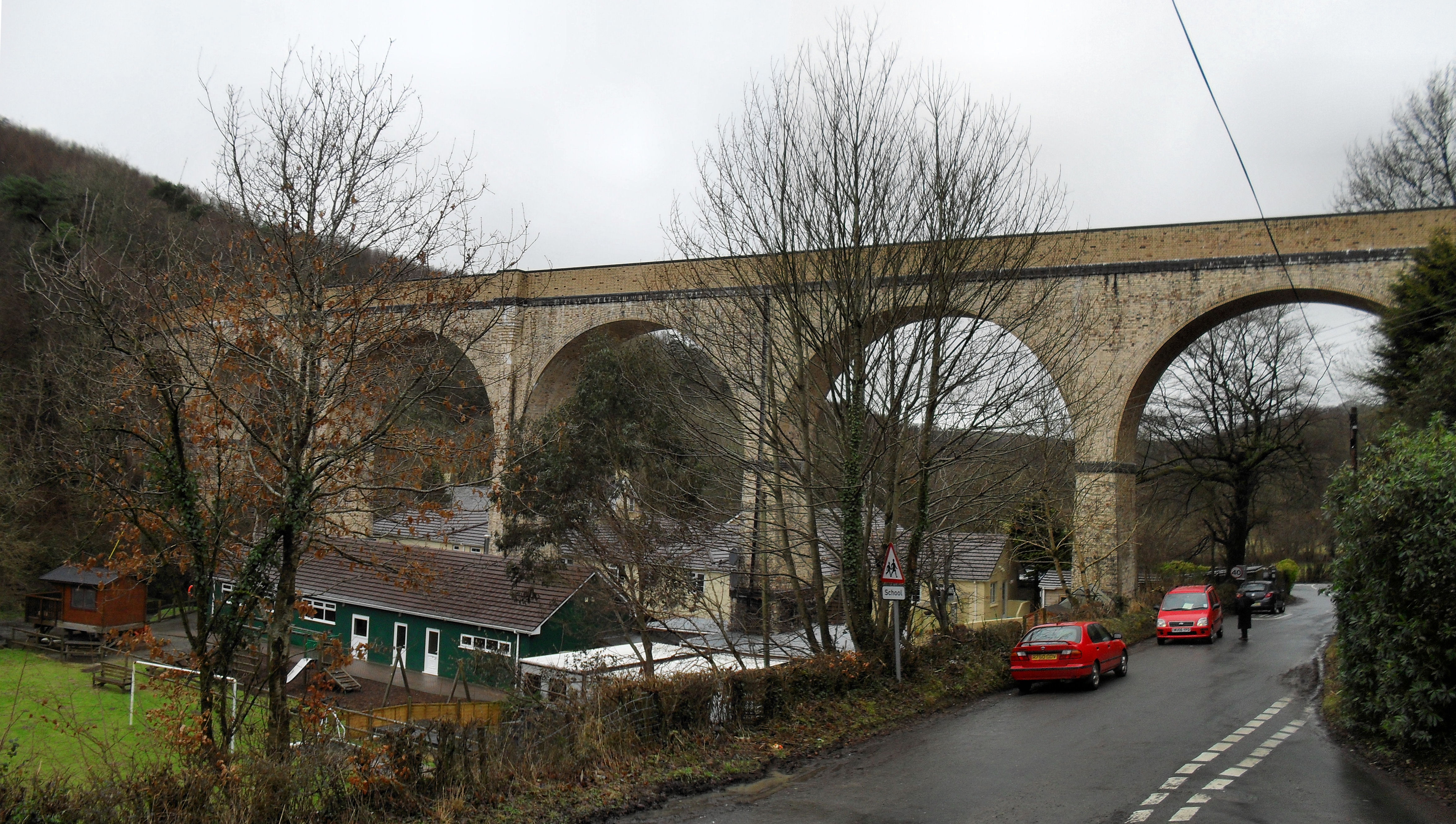 Chelfham Viaduct, constructed in 1896-7, carried the Lynton and Barnstaple Railway across the Stoke Rivers valley. It's constructed from local pale brick and towers 70 feet above the river.